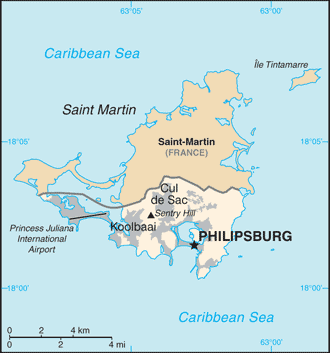 Map of Sint Maarten from the 2010-10-22 revision of the World Factbook